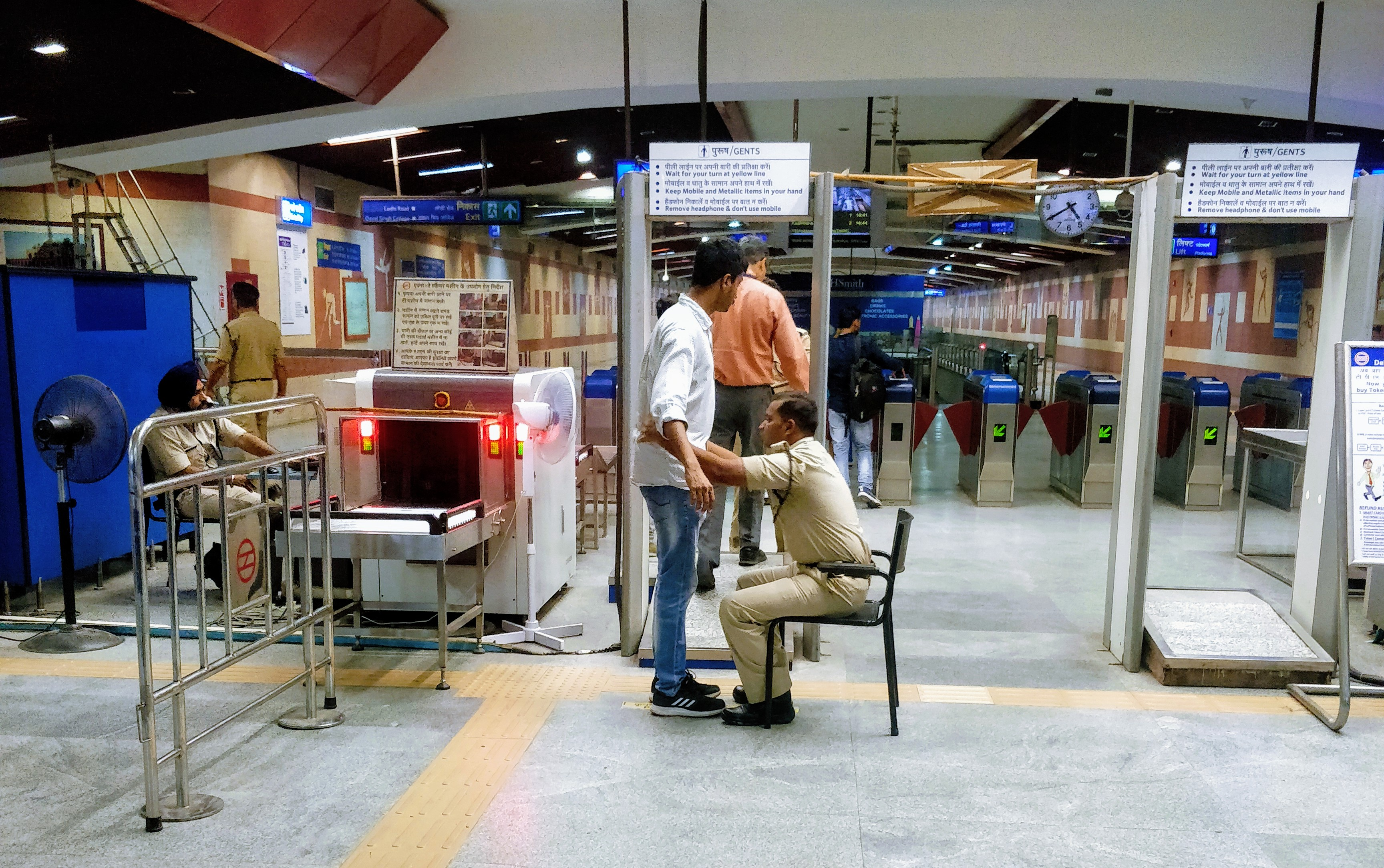 Cropper version of File:Double frisking by CISF personnel at JLN metro station.jpg